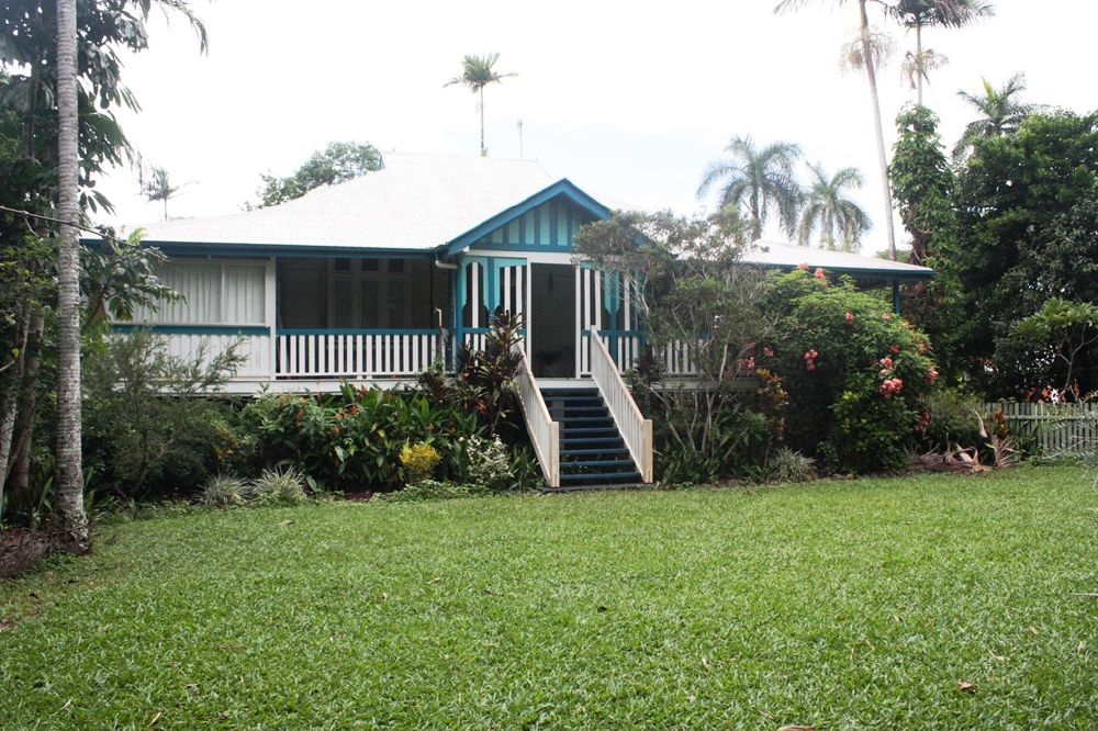 Meringa Sugar Experiment Station, Entomologist house (former) (2013)